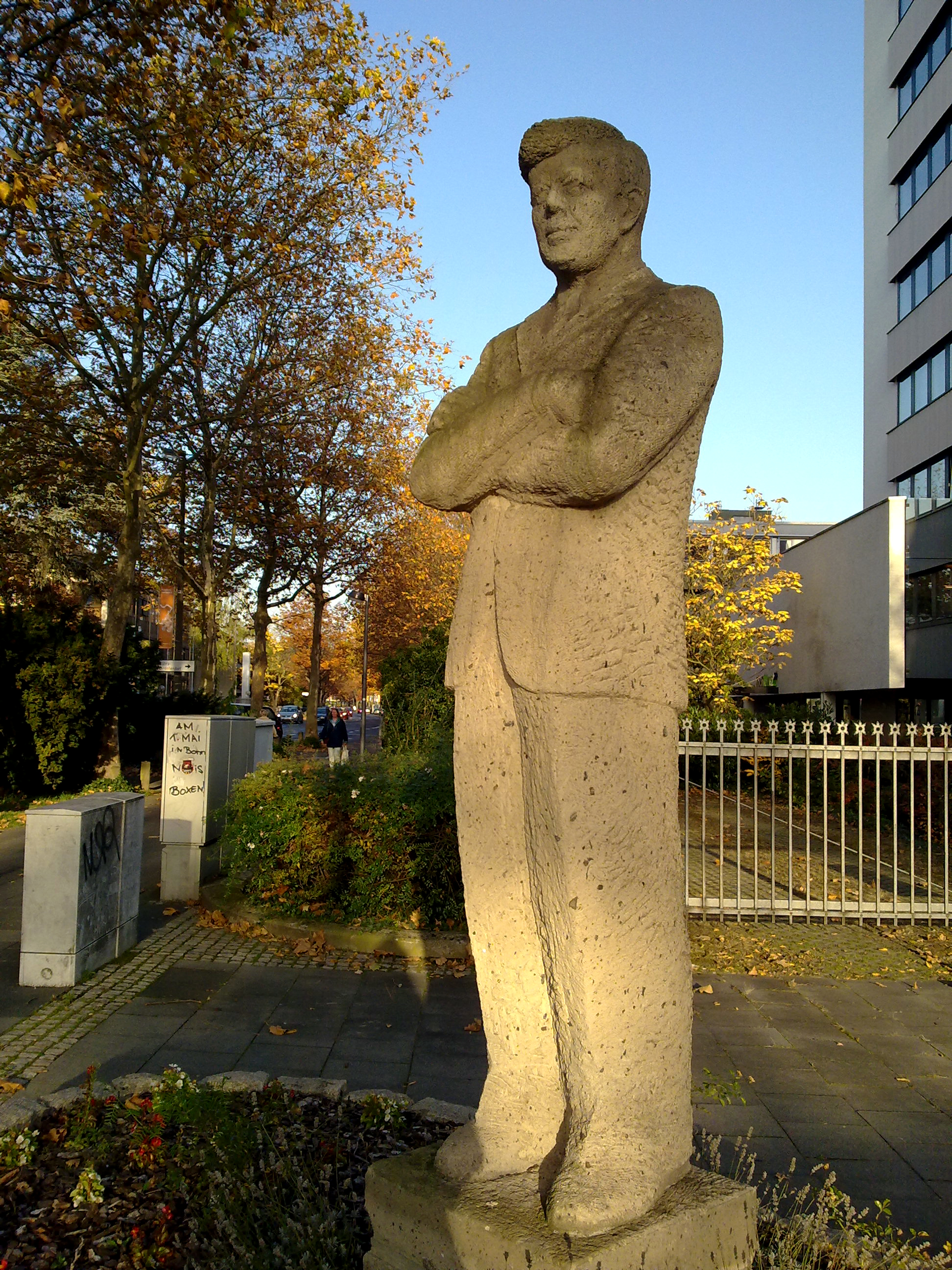 Kennedyallee/Hochkreuz in Plittersdorf (Bonn): Statue of President John F. Kennedy, looking westwards